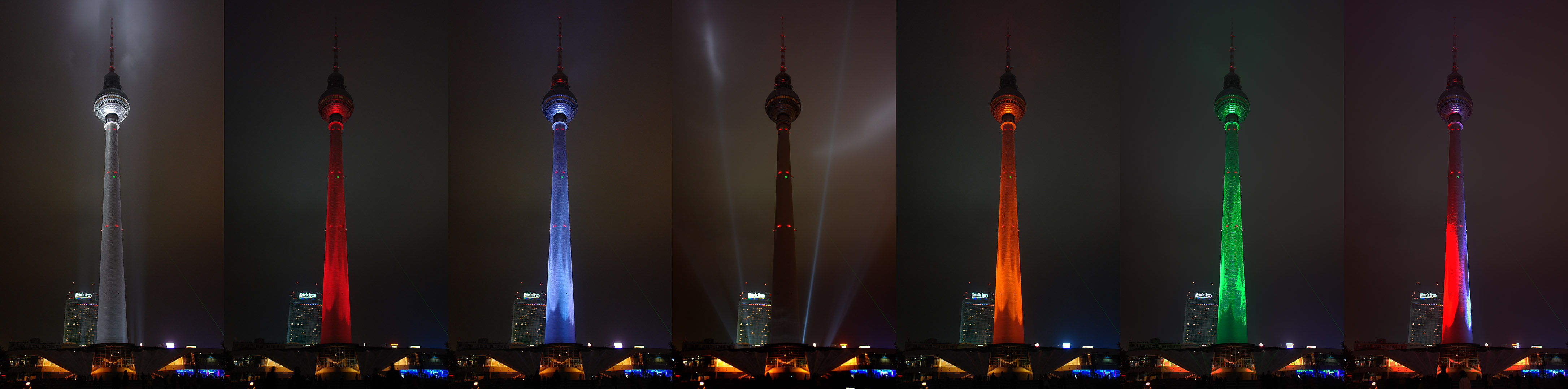 Fernsehturm Berlin during the Festival of Lights.